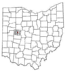 Adapted from Wikipedia's OH county maps. Created by SwissCelt.